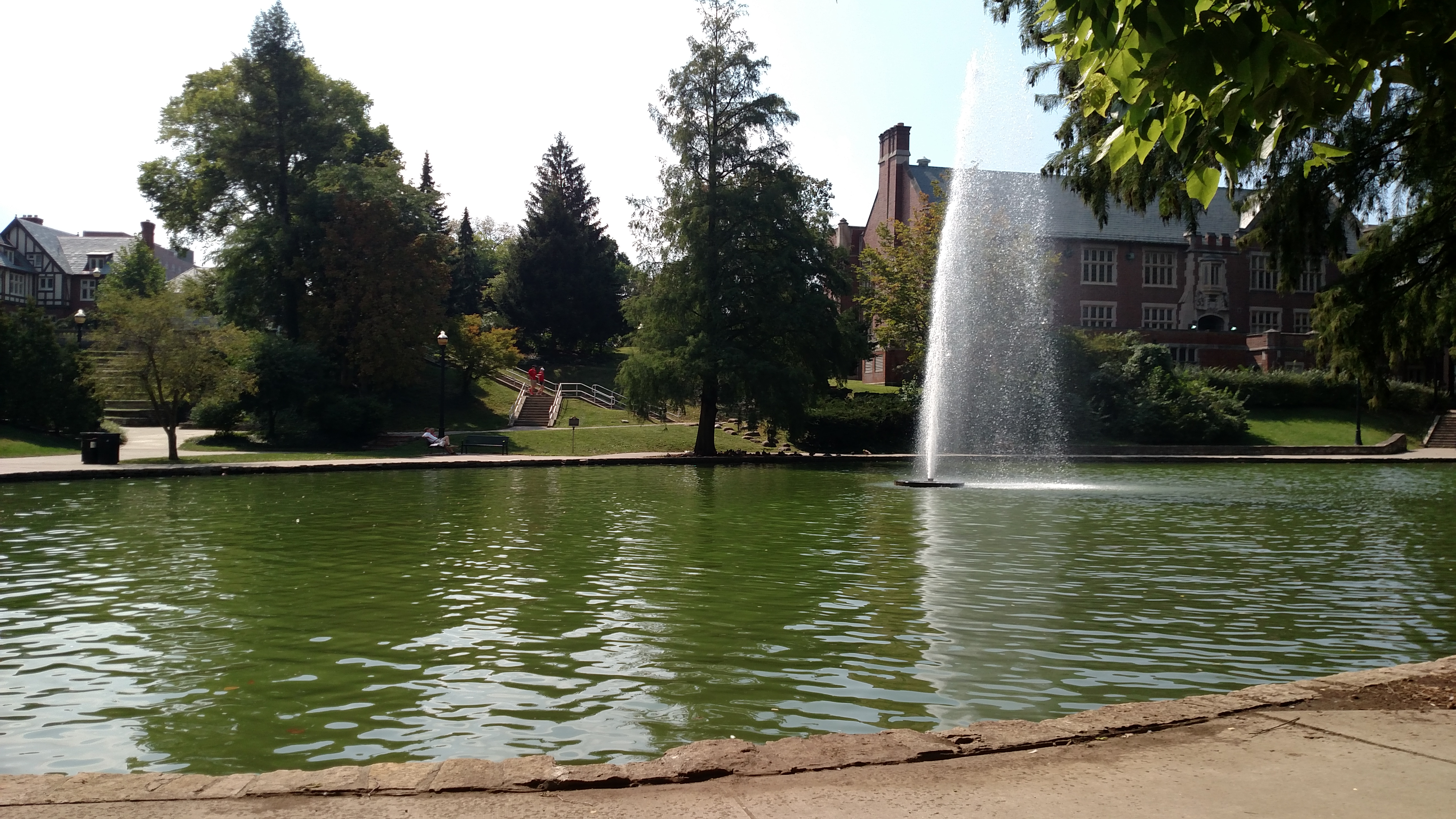 Mirror Lake in September 2016